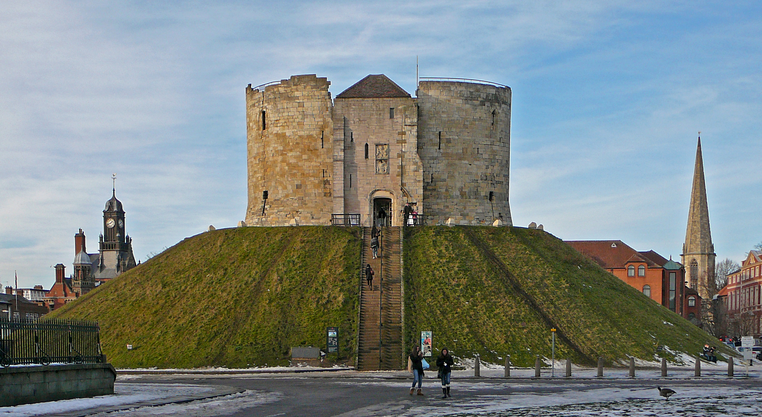 York